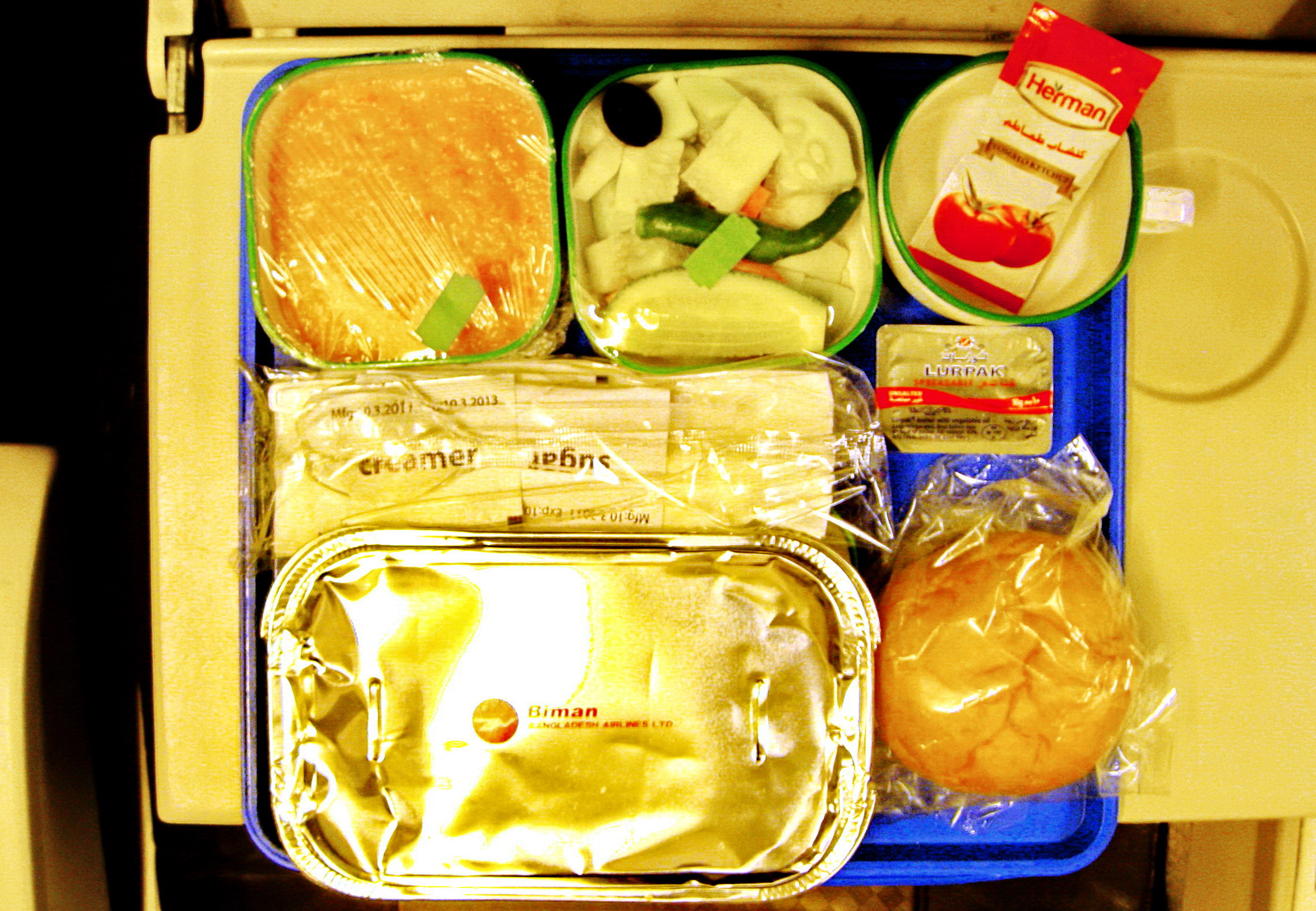 Biman's executive class dinner is set with Bangladeshi style food where steamed rice with boneless chicken bhuna and mixed vegetable is served as the main course. The meal also includes butter bread as starter, firni as dessert and green salad.